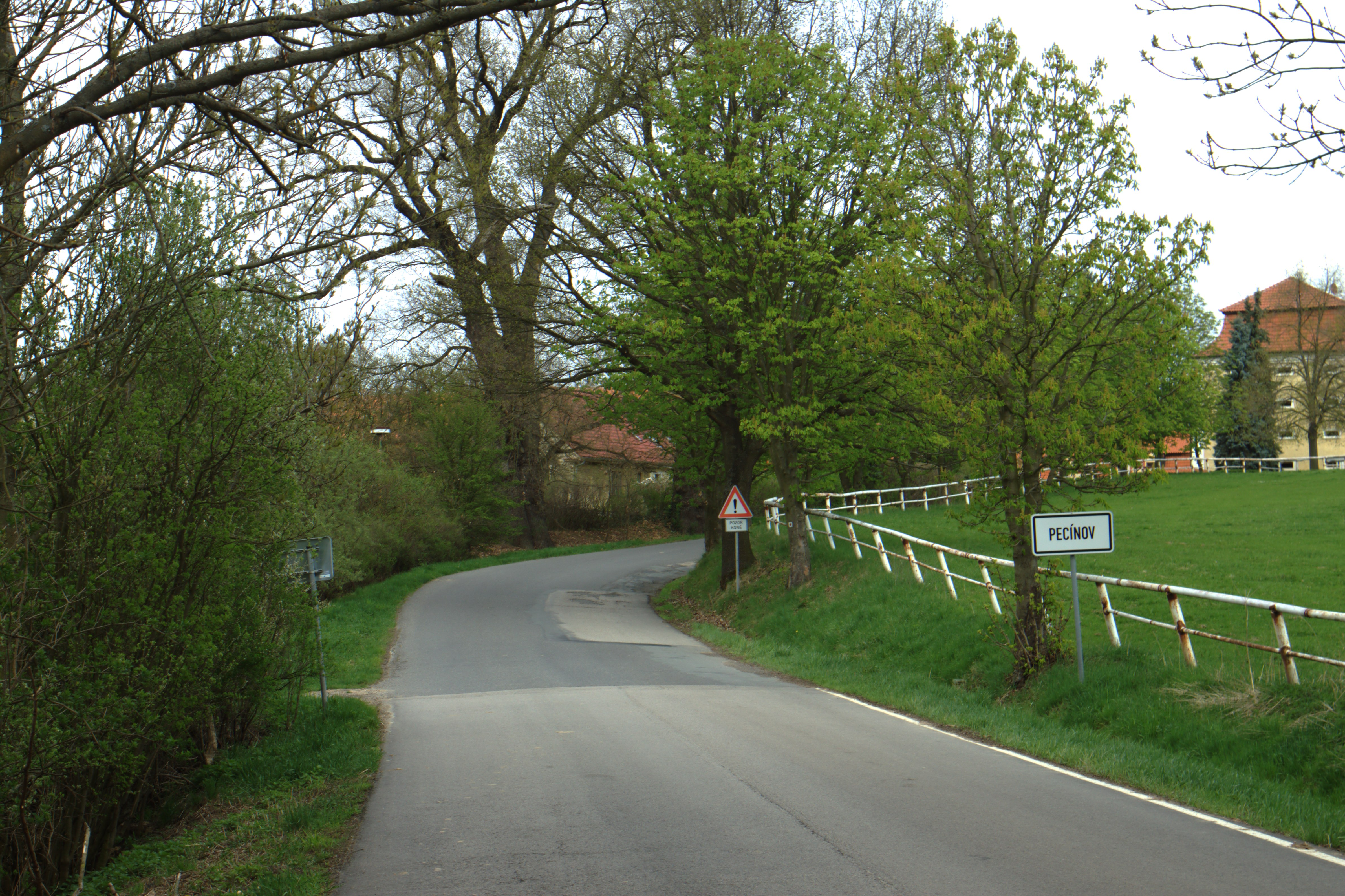 A road to the Pecínov village in Benešov District, from south. Central Bohemian Region, CZ